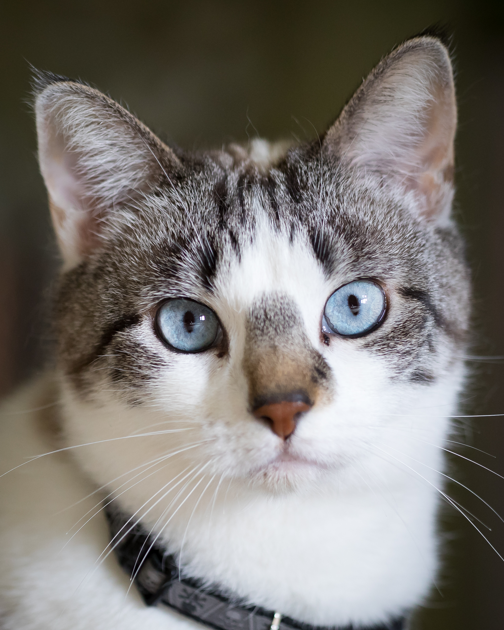 Blue-eyed domestic cat (Felis silvestris catus) named Brontë in Chico, California